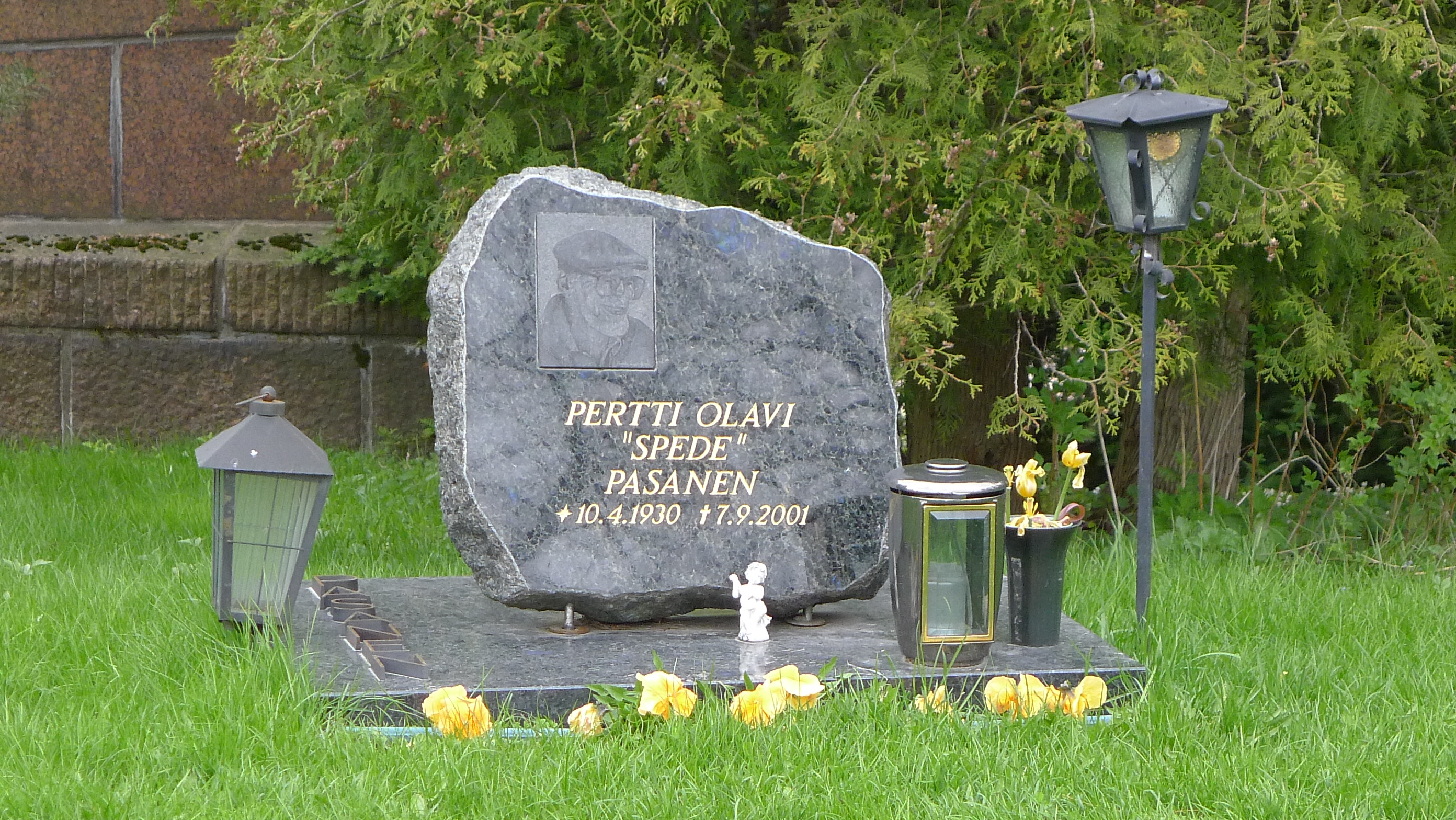 Spede Pasanen Grave (Hietaniemi)